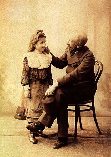 Osman Hamdi Bey with his daughter Nazlı (source&permission: Osman Hamdi Bey Museum, Gebze, İstanbul). Note that Osman Hamdi died in 1910, so this image was taken before that.